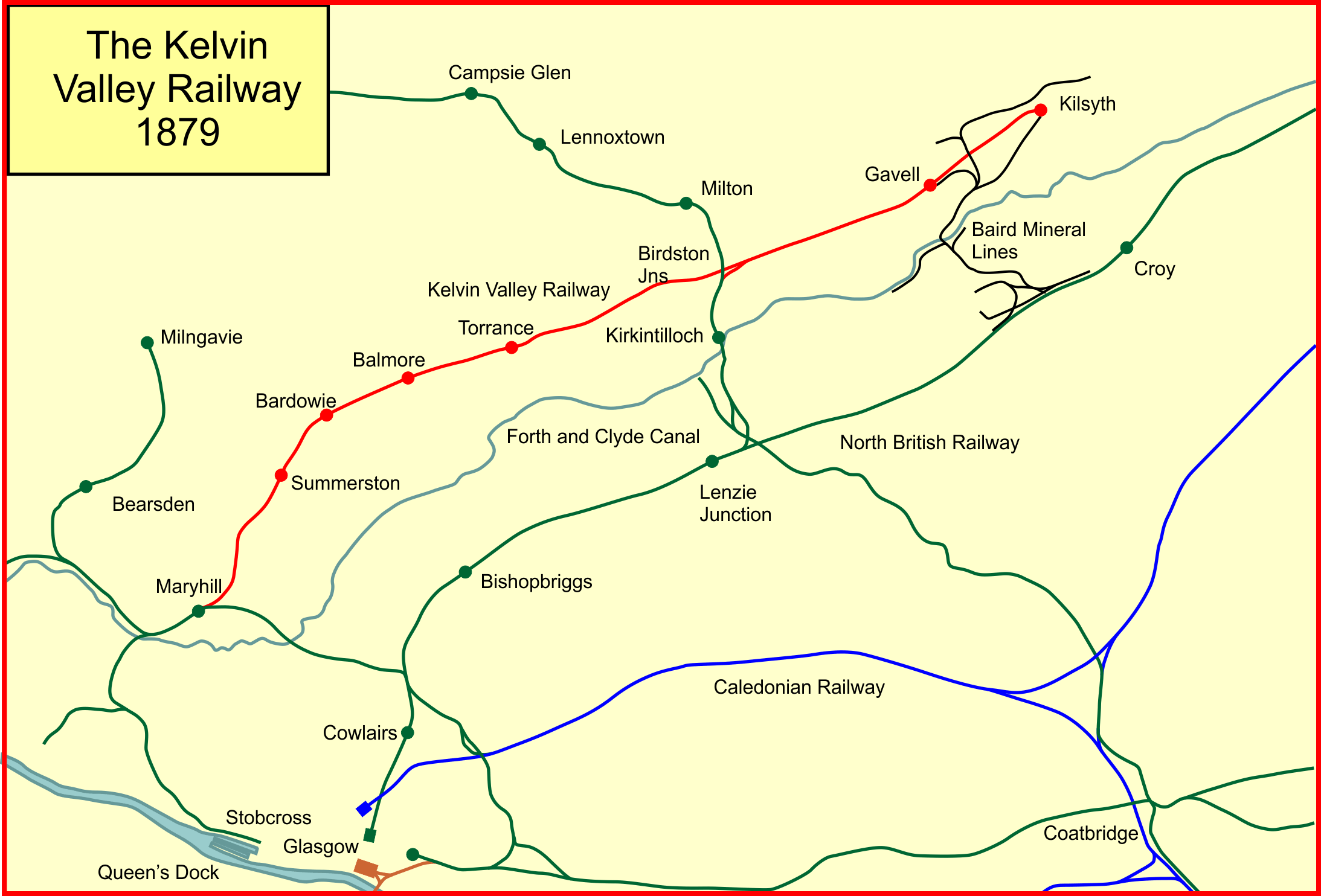 System map of the Kelvin Valley Railway in central Scotland in 1879